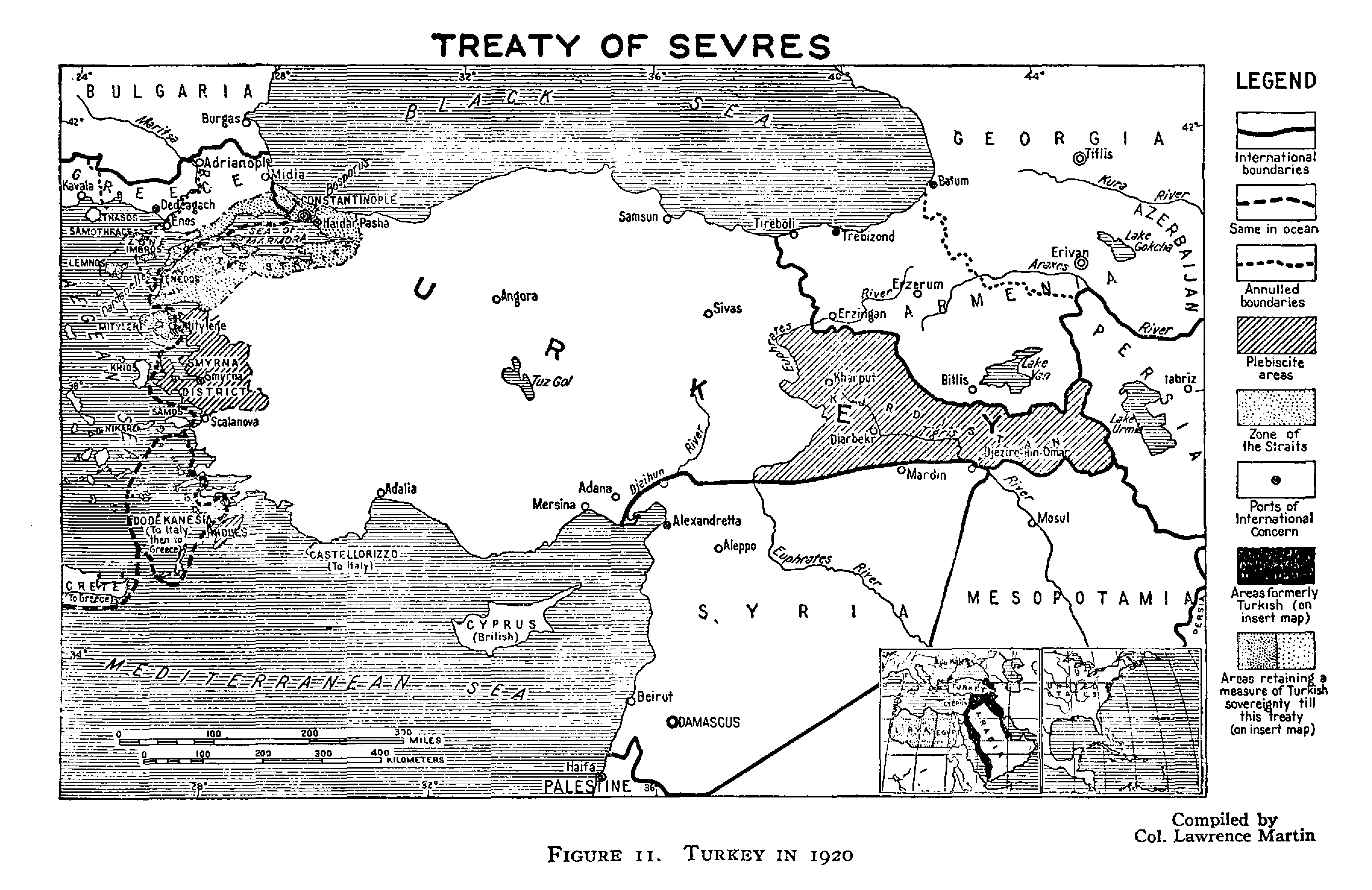 An original map from 1920 illustrating the Treaty of Sevres region.